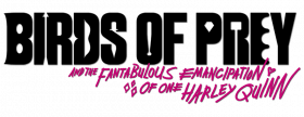 Logo of “Birds of Prey” (2020)